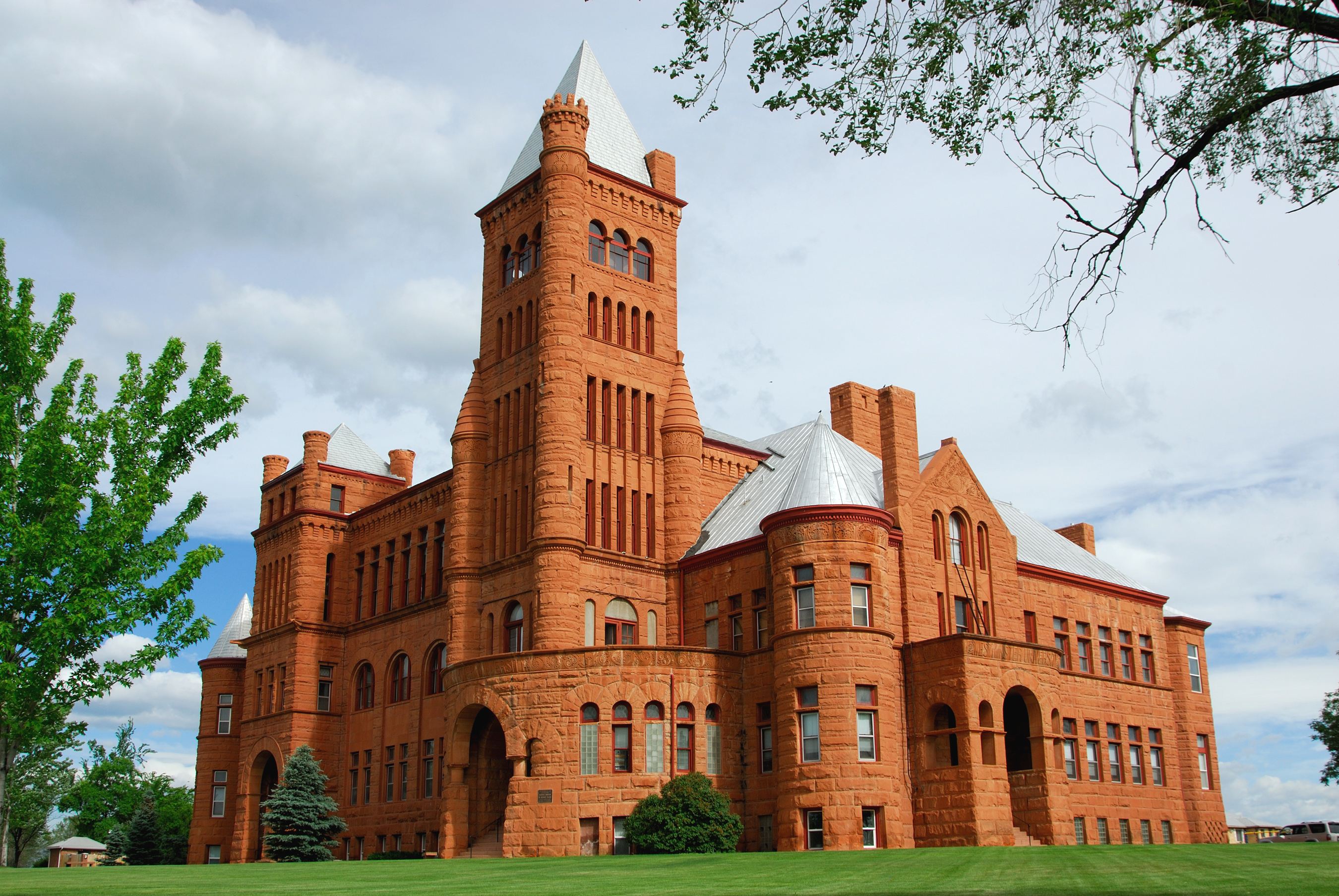 Westminster University, now known as Belleview Christian Schools, is listed on the National Register of Historic Places.